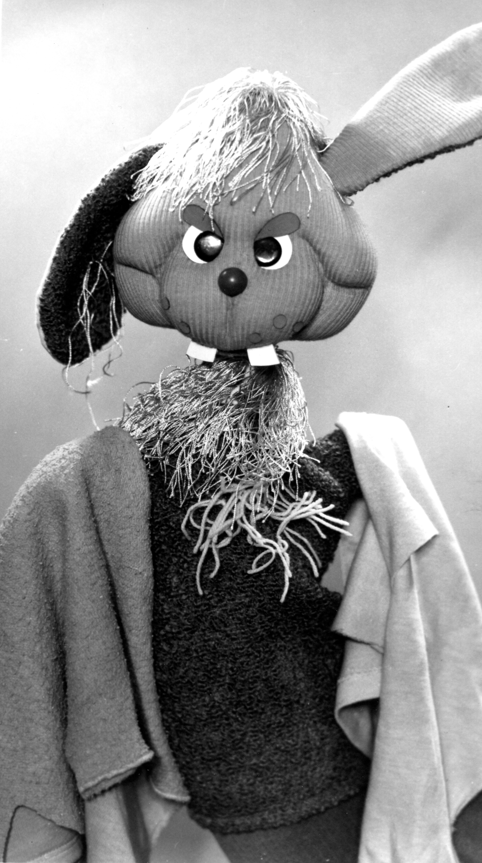 Puppet Bunny in TV Show "Bunny and Little Liar" (Füli és Csali), work of Šandor Hartig, 1976 Srpski (latinica): Lutak Dugoško u TV emisiji „Dugouško i Lažljivko“ (Füli és Csali), rad Šandora Hartiga, 1976. Српски (ћирилица): Лутак Дугоушко у ТВ емисији „Дугоушко и Лажљивко“ (Füli és Csali), рад Шандора Хартига, 1976.